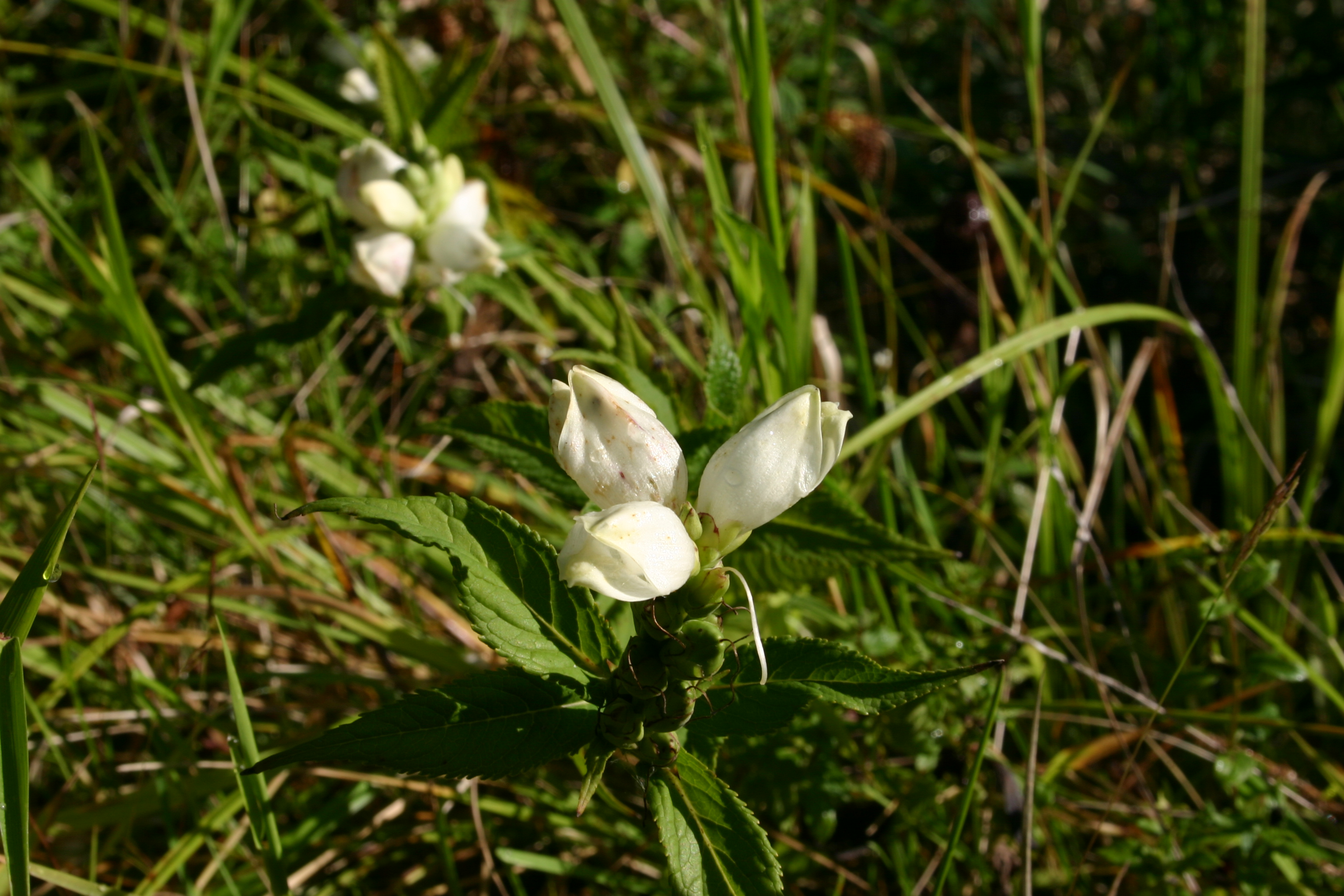 Chelone glabra Dragon Run watershed in Virginia.